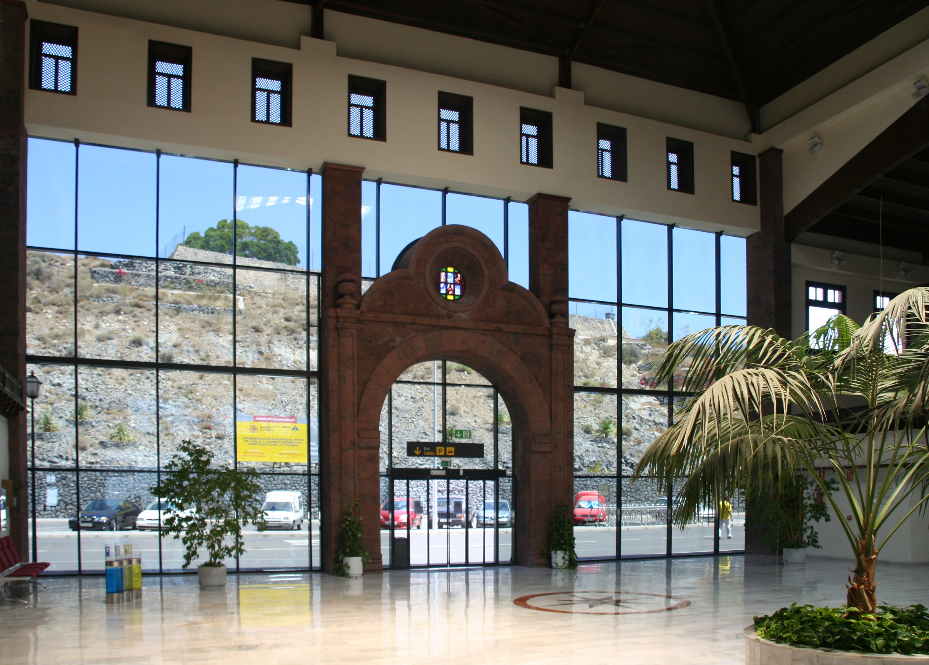 View of La Gomera Airport, Ctra. Playa de Santiago, s/n, 38812, Santa Cruz de Tenerife, Spanje